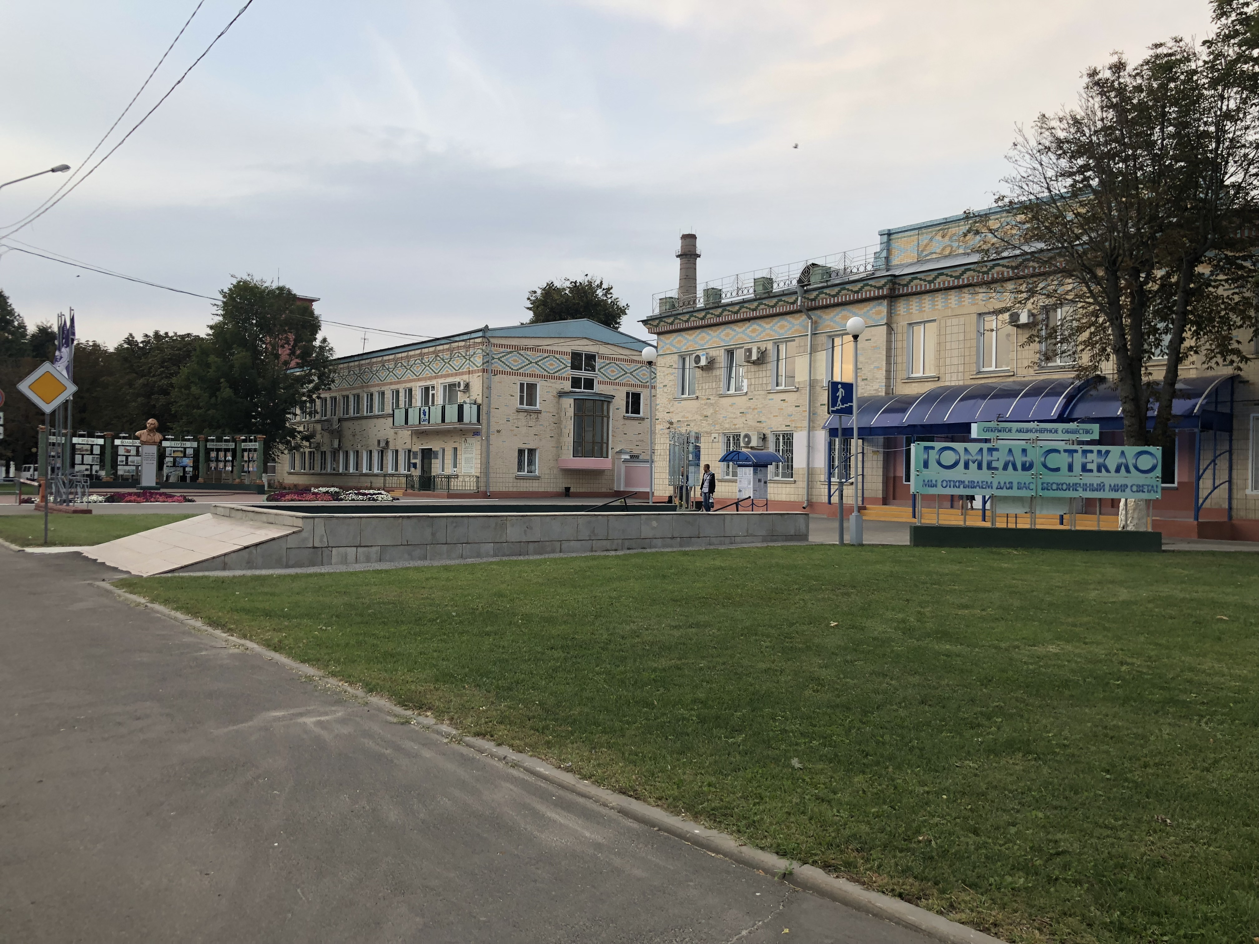 JSC "Gomelglass", Kasciukoŭka, September 2018